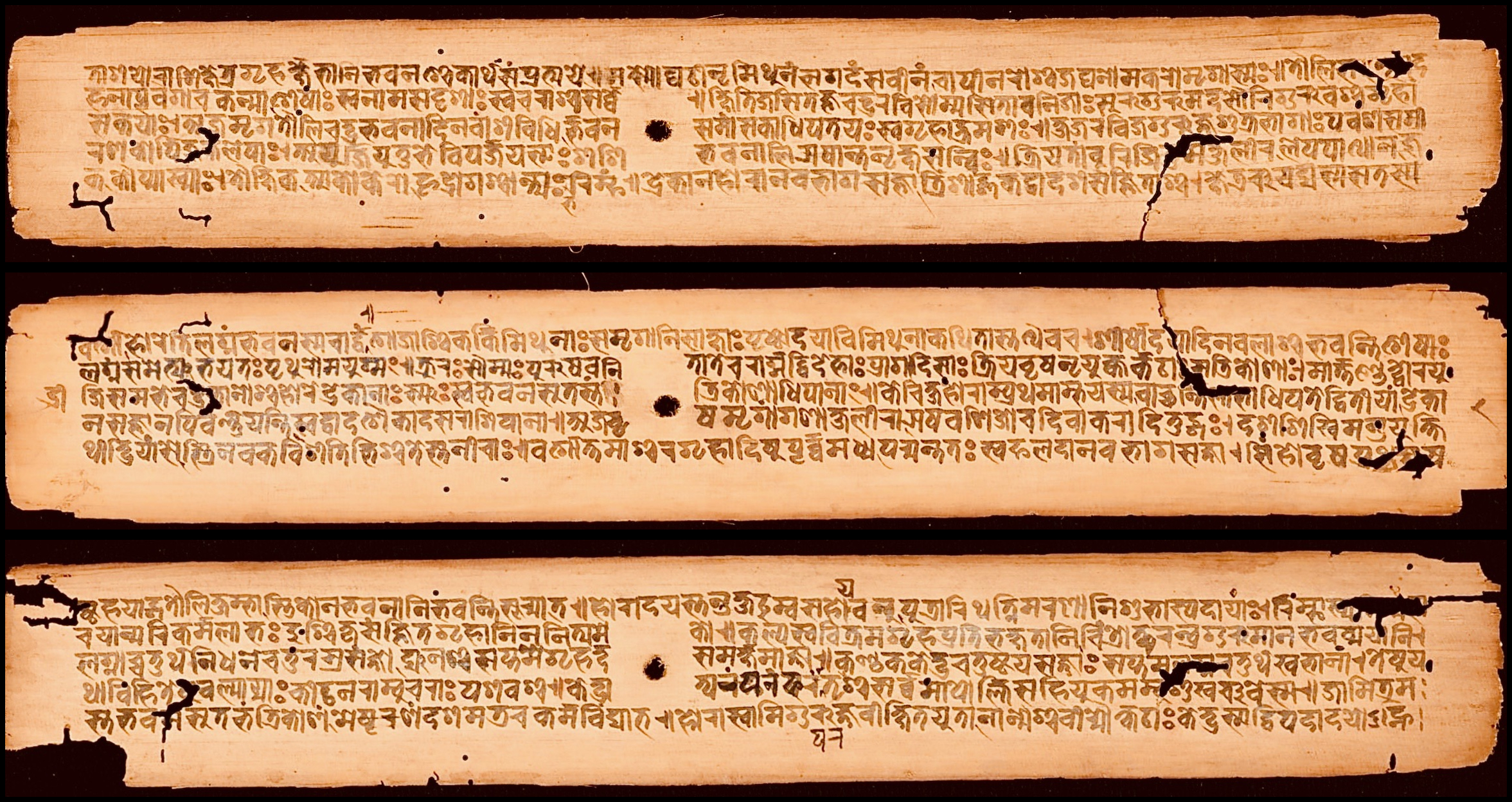 The Brihajjataka is one of six major works of Varahamihira (the most famous of his works is Brihat Samhita). It was published in early 6th-century. The text relates to astronomy and zodiacs. According to scholars such as Moriz Winternitz, it was possibly Varahamihira who after learning the Greek language introduced and helped diffuse the Greek zodiac signs, names, and astrology. His works were copied and preserved in many parts of the Indian subcontinent, including Nepal where the above manuscript was rediscovered in the 19th-century. This version of the manuscript is incomplete and has many copying errors. It is now preserved at the Cambridge University Library as identification number MS Add.2834. The photo above is of a 2D artwork from a palm leaf manuscript that was copied in 1399 CE, purchased by Cecil Bendall in 1887. The copyrights of the 6th-century original text, and the copy have long expired. The photography is covered by Wikimedia Commons PD-Art licensing guidelines. Any rights I have as a photographer is herewith donated to wikimedia commons under CC 4.0 license.